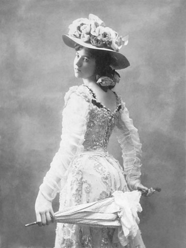 Studio portrait of "Klondike Kate" Rockwell holding an umbrella.